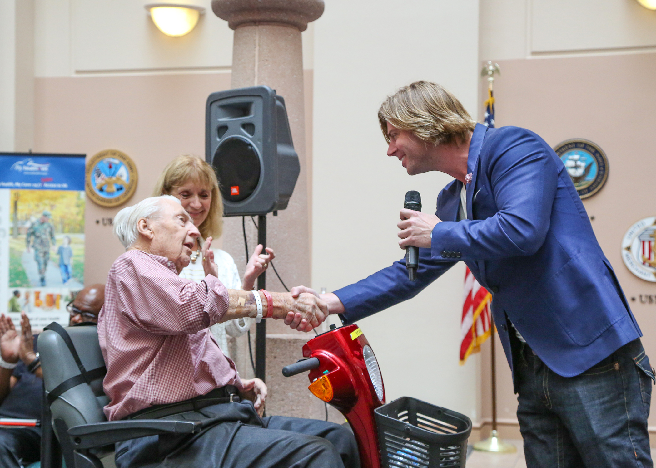 Singer Beau Davidson provided a free concert at the West Palm Beach VA Medical Center